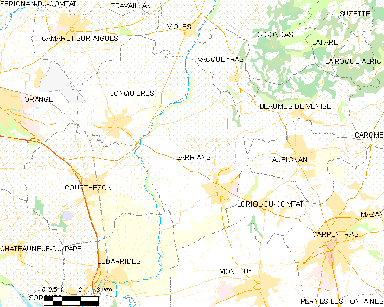 Map of French municipality Sarrians